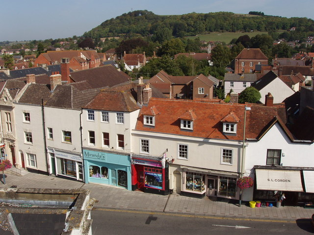 Shops in High Street, Warminster. From the tower of the Chapel of St Lawrence